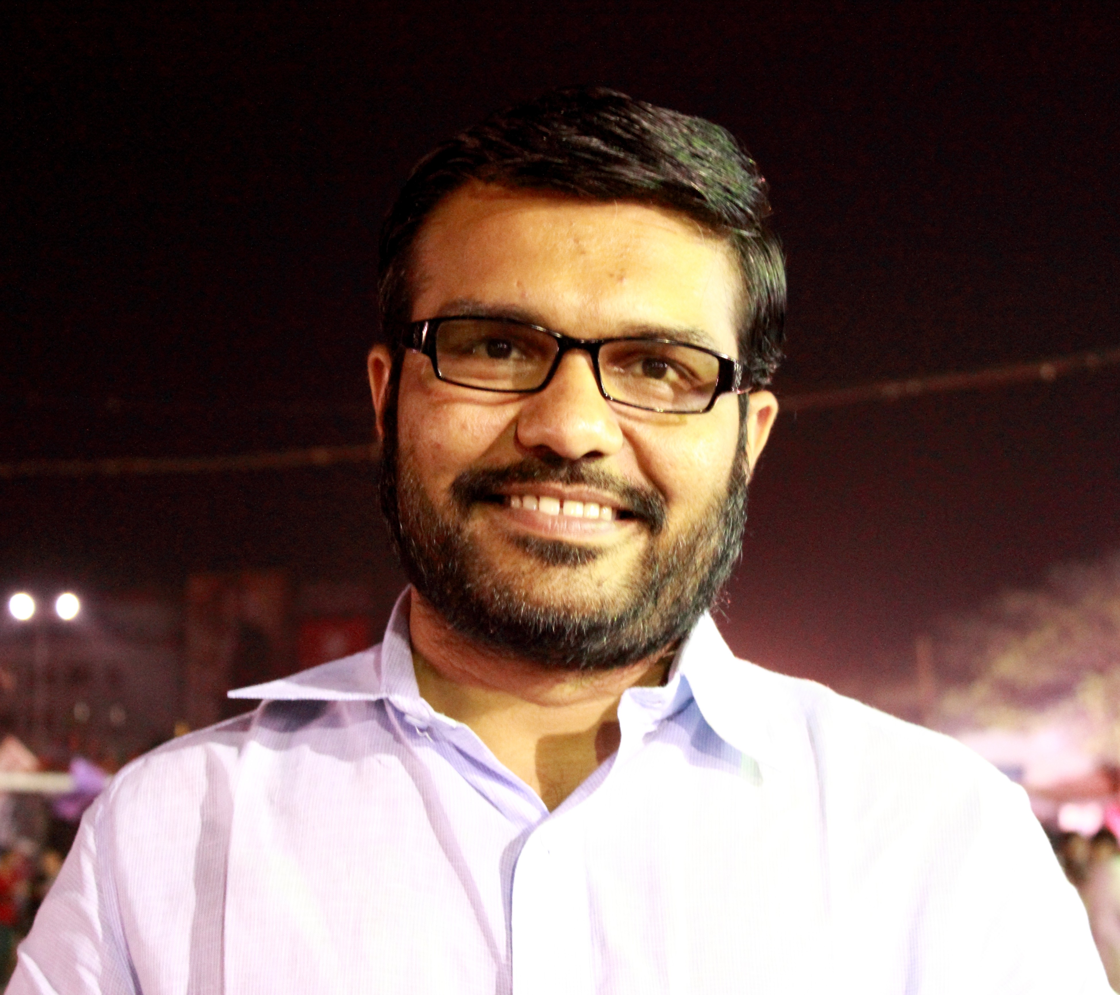 M B Rajesh Communist politician from Palakkad